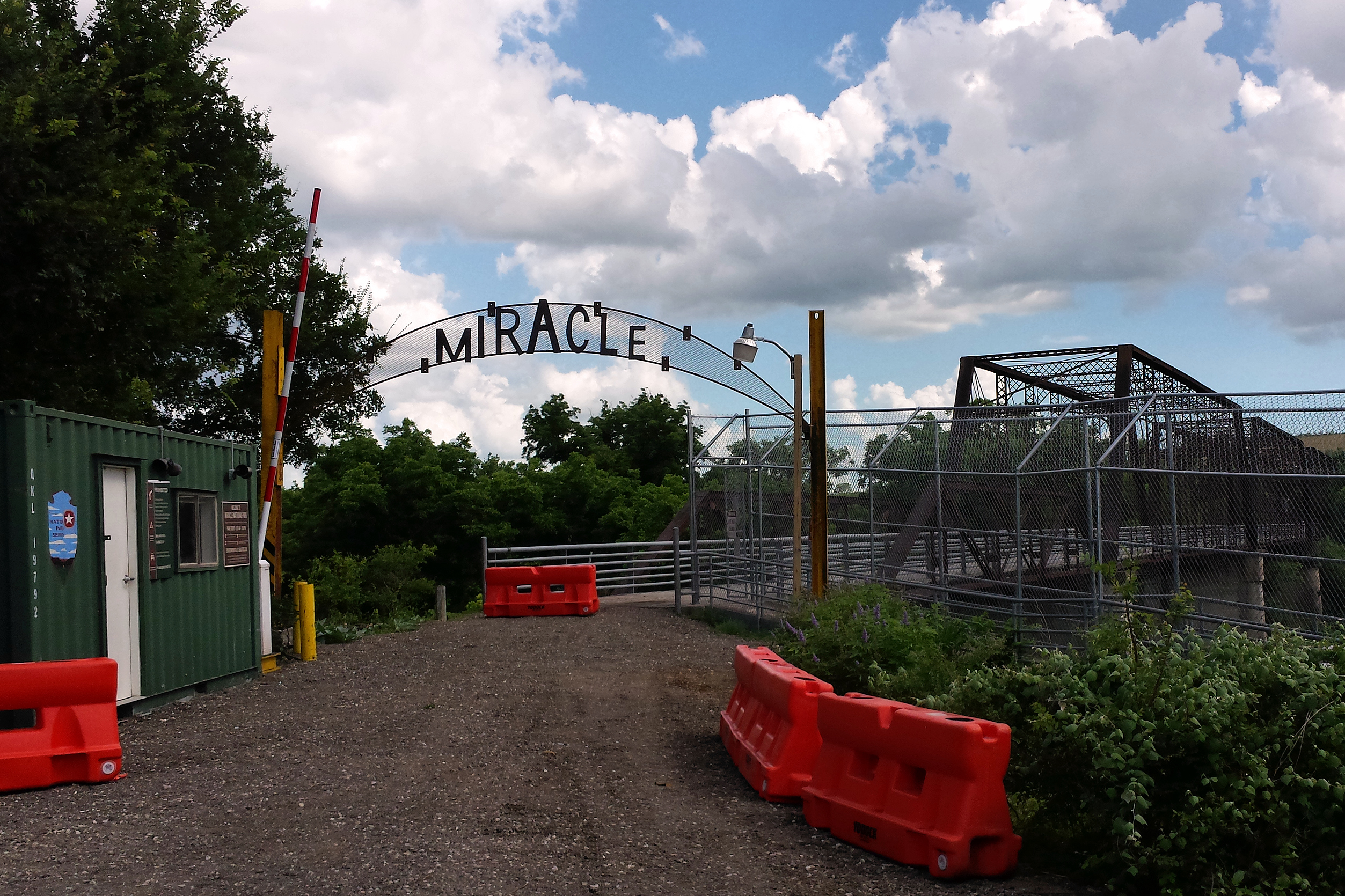 The Moore's Crossing Bridge set decorated for season 2 production of HBO's "The Leftovers" by Warner Brothers.